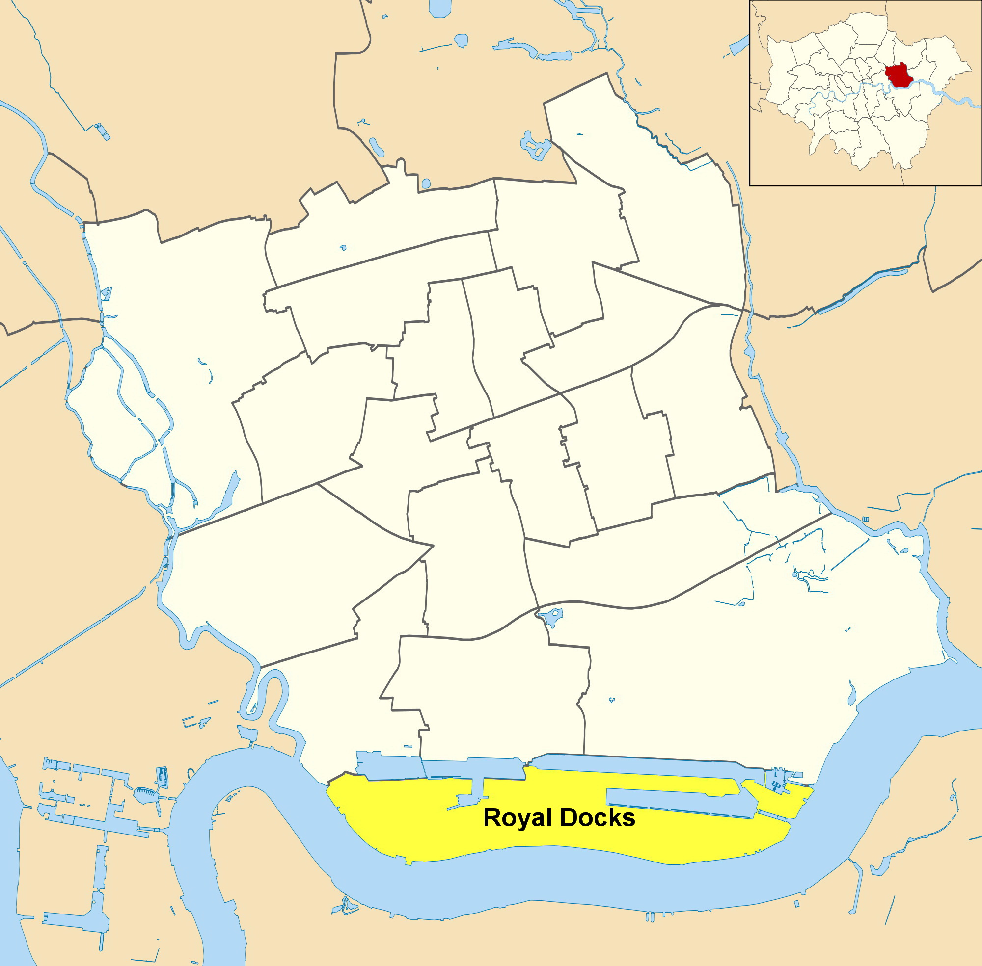 Ordnance Survey map of the London Borough of Newham, showing Royal Docks ward.